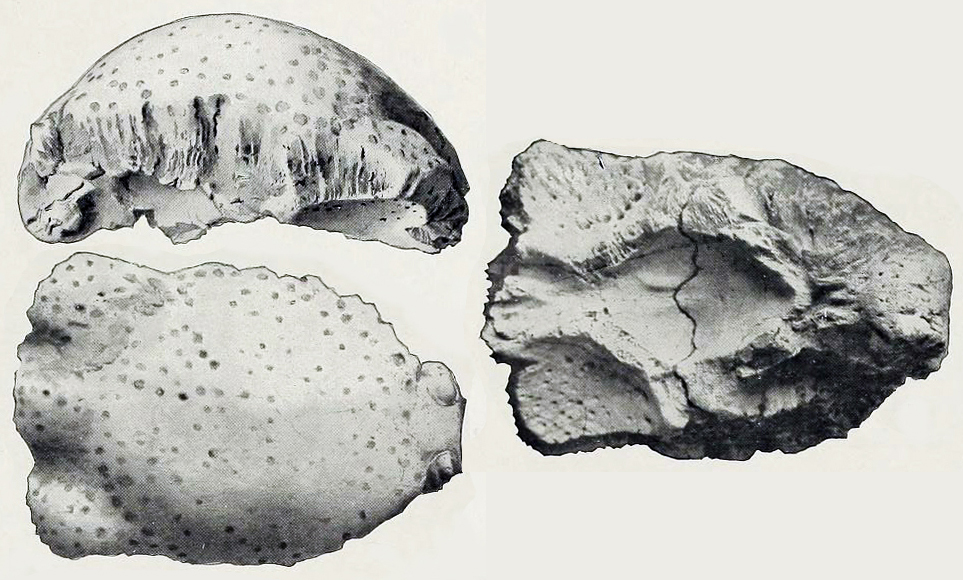 Foraminacephale brevis (formerly Stegoceras and Prenocephale) type specimen CMN 1423.